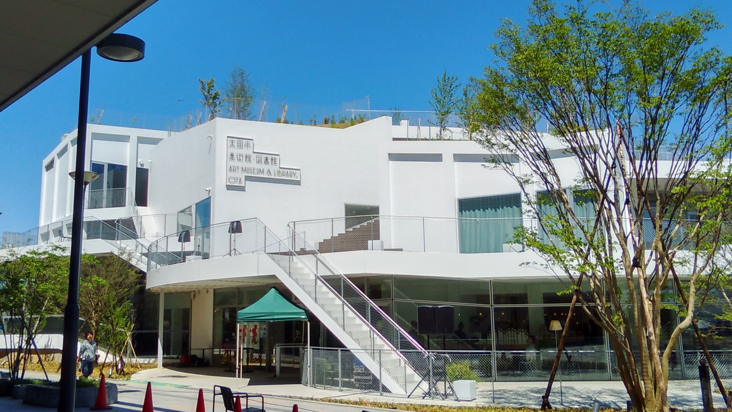 ART MUSEUM & LIBRARY, OTA (south side) in Ota, Gunma, Japan.